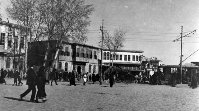 Photo of Damascus city square in 1918 Other information access unrestricted